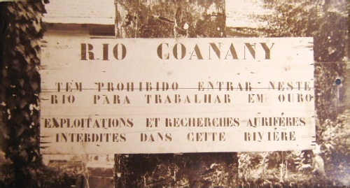 Photograph of 1894 of the plate forbidding entrance on the Rio Cunani, in Amapá, to work with gold.